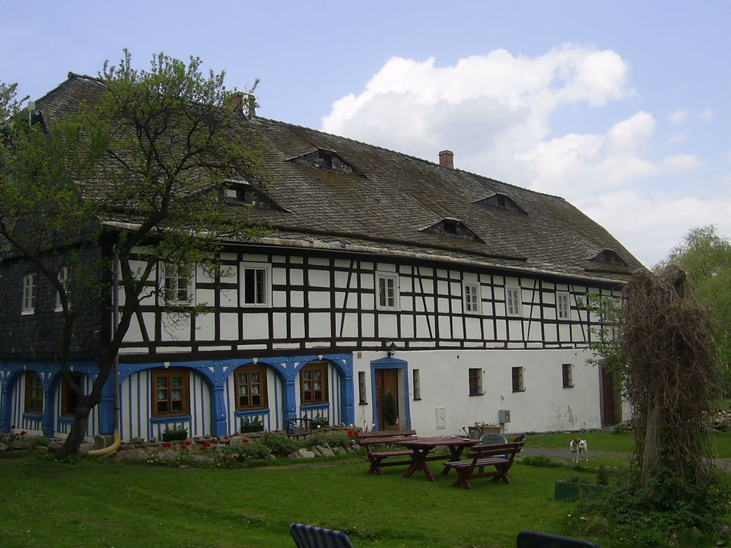 Lower silesia House